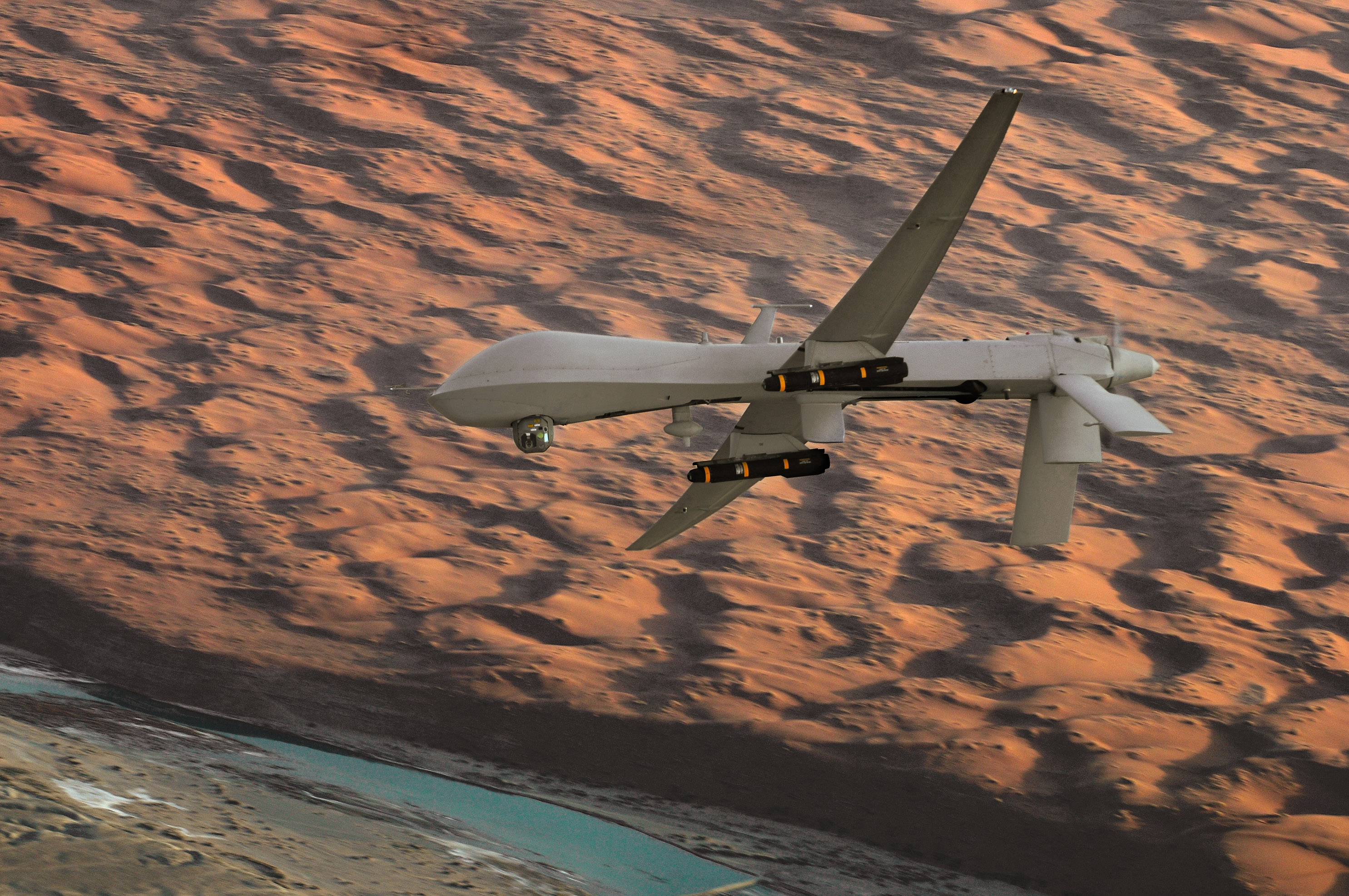 An MQ-1 Predator unmanned aircraft, armed with AGM-114 Hellfire missiles, flies a combat mission over southern Afghanistan. The MQ-1 is deployed in Operation Enduring Freedom providing interdiction and armed reconnaissance against critical, perishable targets.